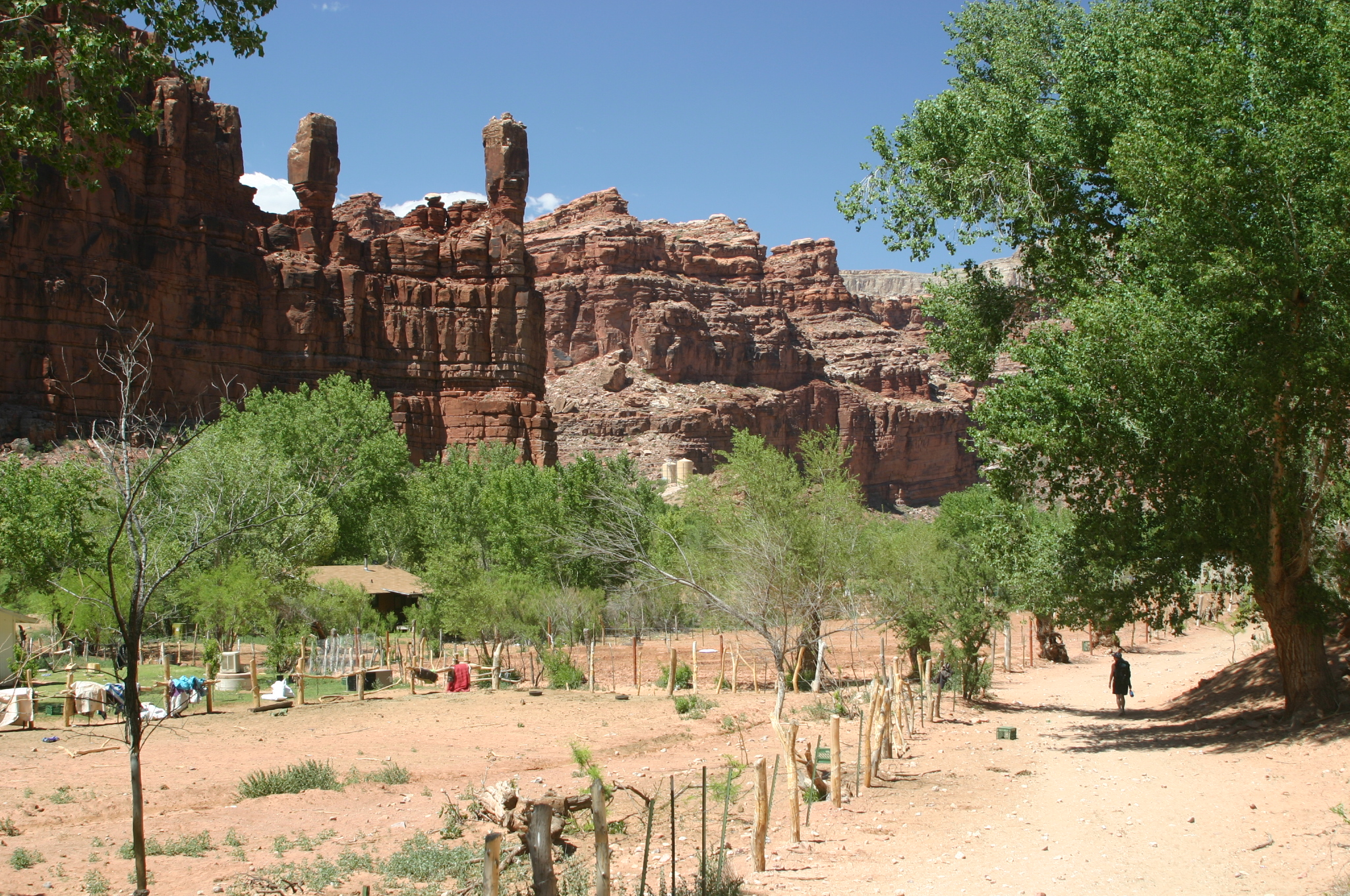 On the trail into Supai from Hualapai Hilltop, the first signs of the village are extensive paddocks for horses, mules, and cattle, and the Wigleeva, the sacred rock formations looking over the village.